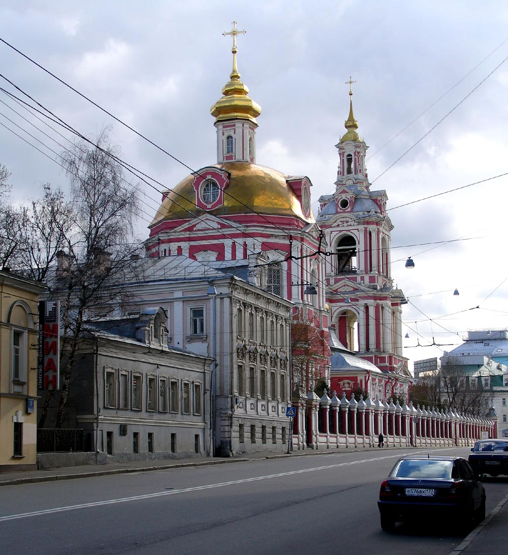 View of Staraya Basmannaya Street (bldgs.18-16), Basmanny District, Moscow, Russia. A mix of mid-18th century Baroque and post-1812 cheap neoclassical buildings.